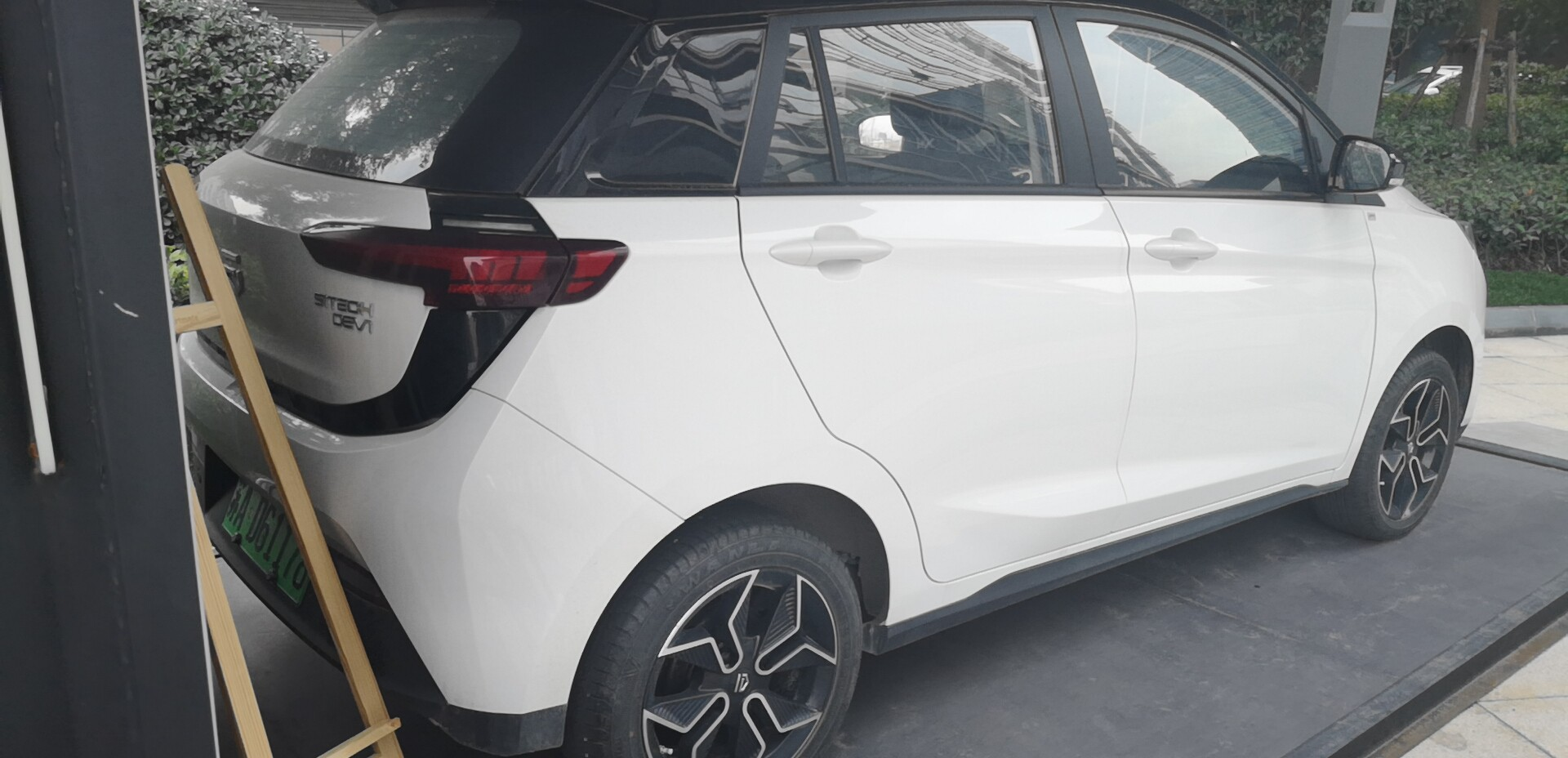 Sitech DEV1 rear